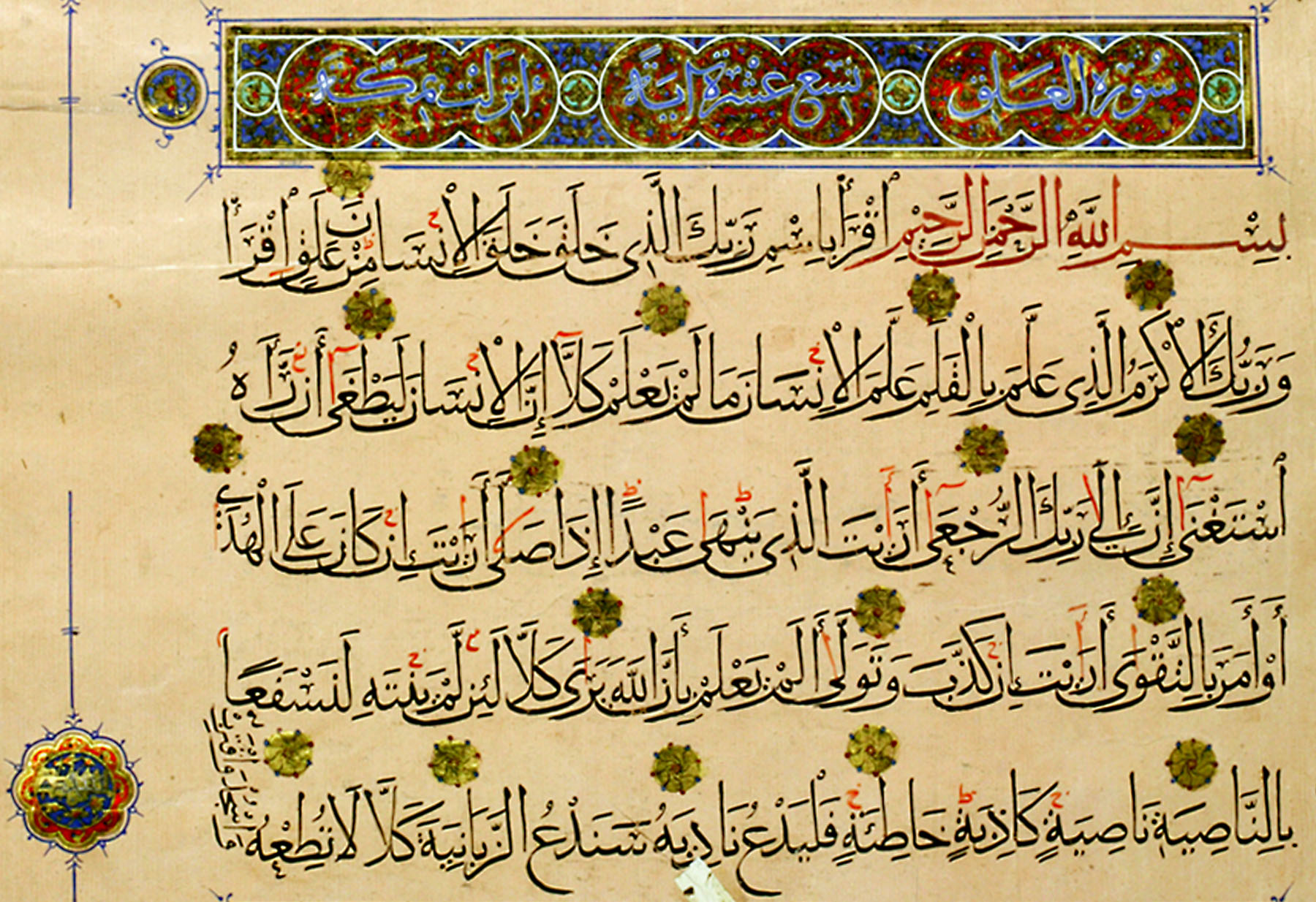 Closeup of Chapter 96 of the Holy Qur'an, Surah al 'Alaq, "The Clot" - the first lines are the first revelation received by the Command of Allah to Muhammad, (God's peace and blessings be upon him), delivered by the Archangel Gabriel. This is a derivative work (cropped and enlarged for printing purposes) based on an Islamic photo of a "Leaf from the Quran, Egypt, 1400-1500. Museum no. 7217-1869" in The Victoria and Albert Museum collection.